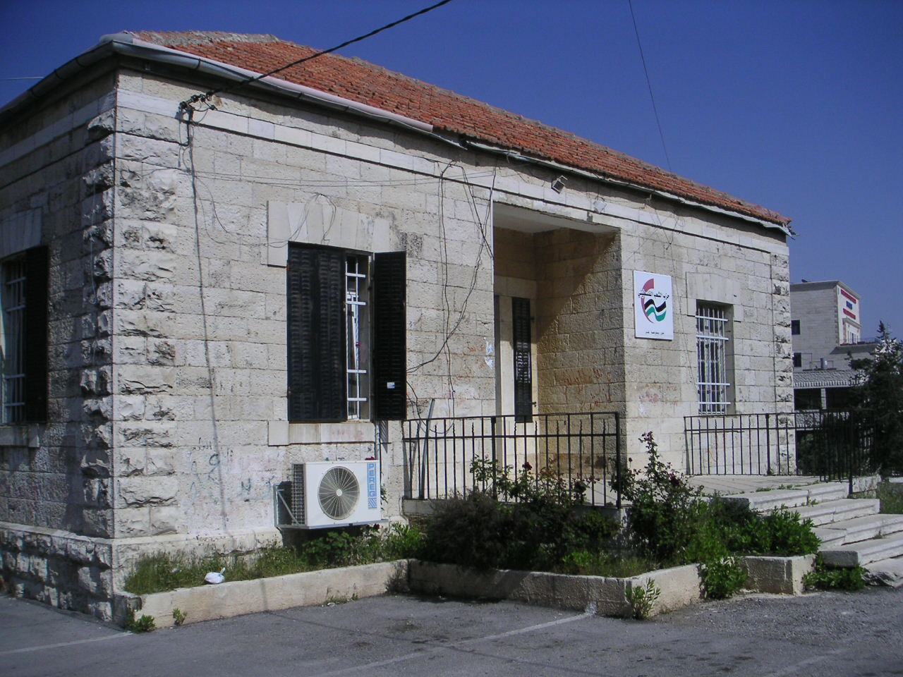 Office of the Palestinian People's Party, Ramallah. Photo: Soman